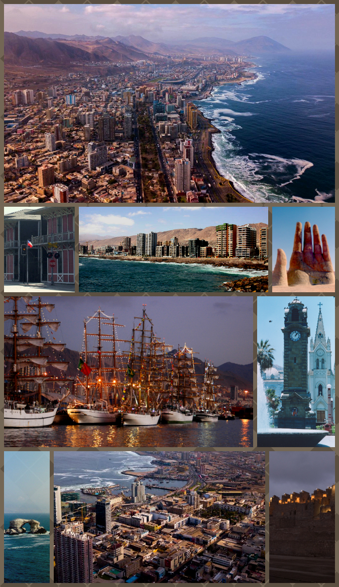 Montage of Antofagasta, Antofagasta Region, Republic of Chile.